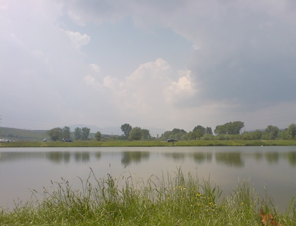 Rožkovany lake